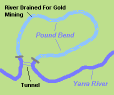 A map explaining the pound bend tunnel and river diversion in Warrandyte, Victoria, Australia.